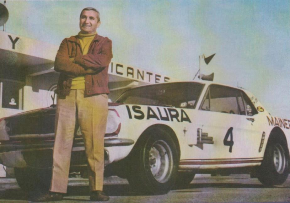 Oscar Cabalen's, Ford Mustang of Turismo Carretera in Argentina